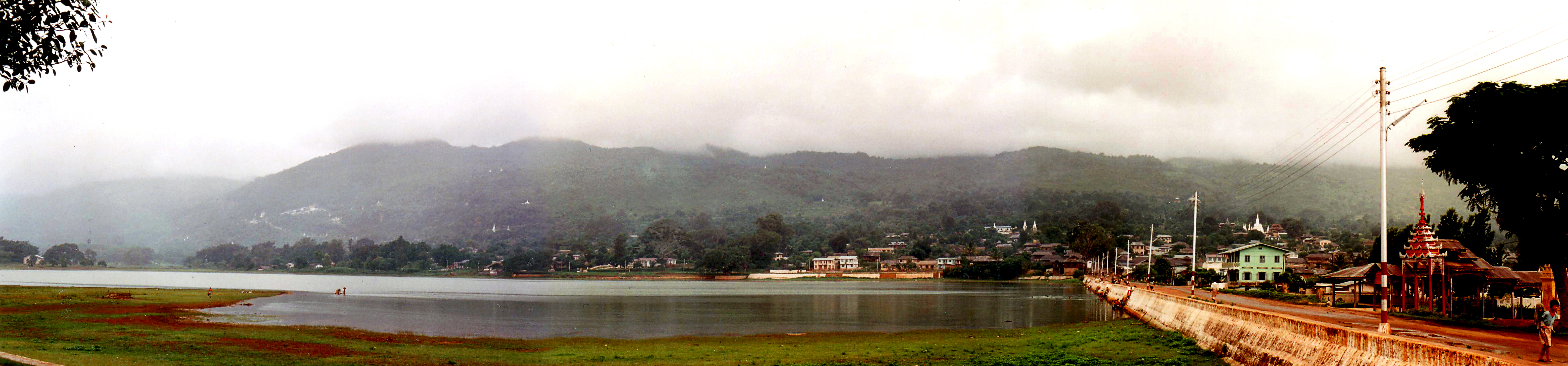 Pindaya in Shan state, Myanmar